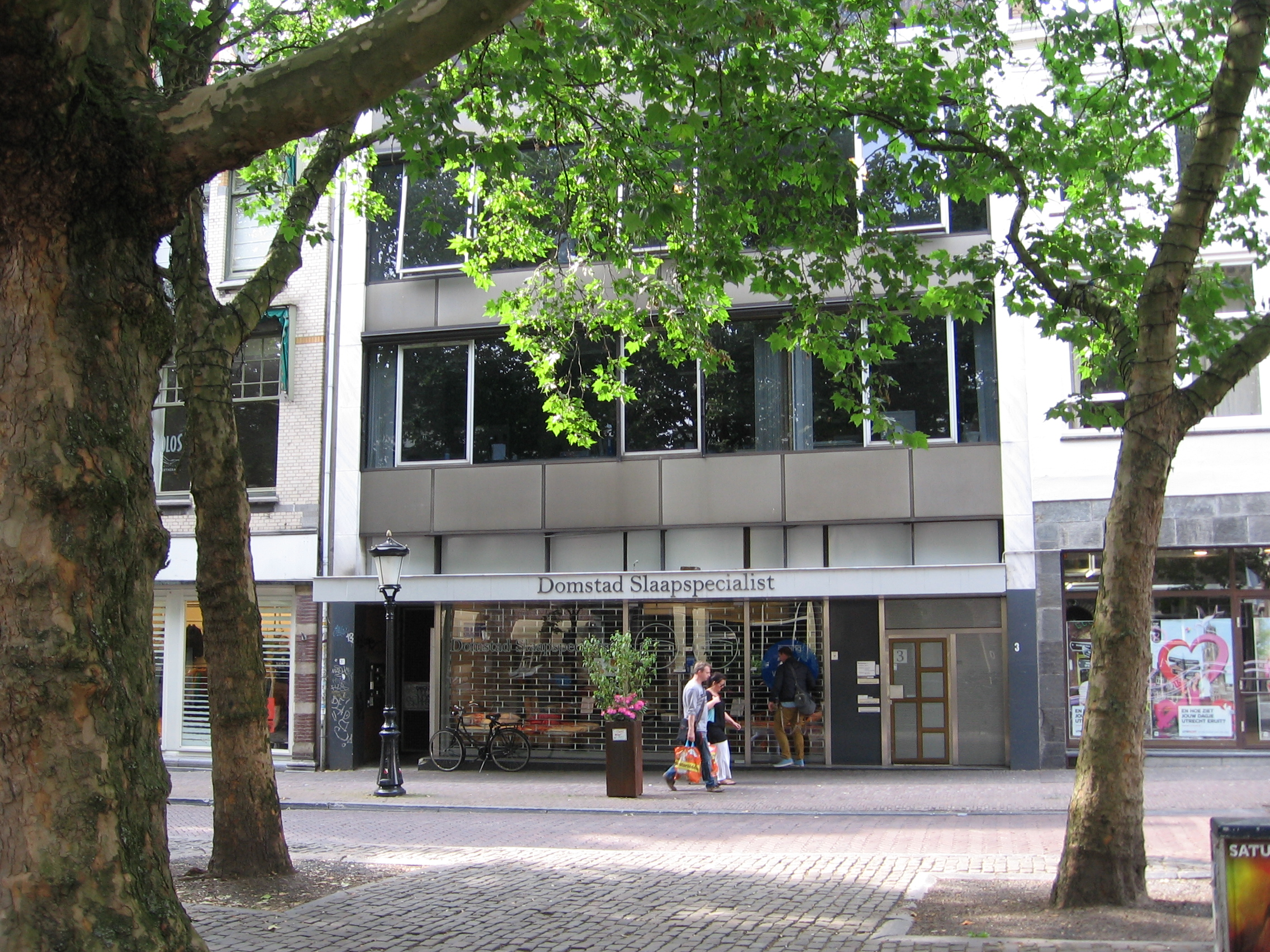 Office Wikimedia Nederland, Mariaplaats 3, Utrecht, The Netherlands